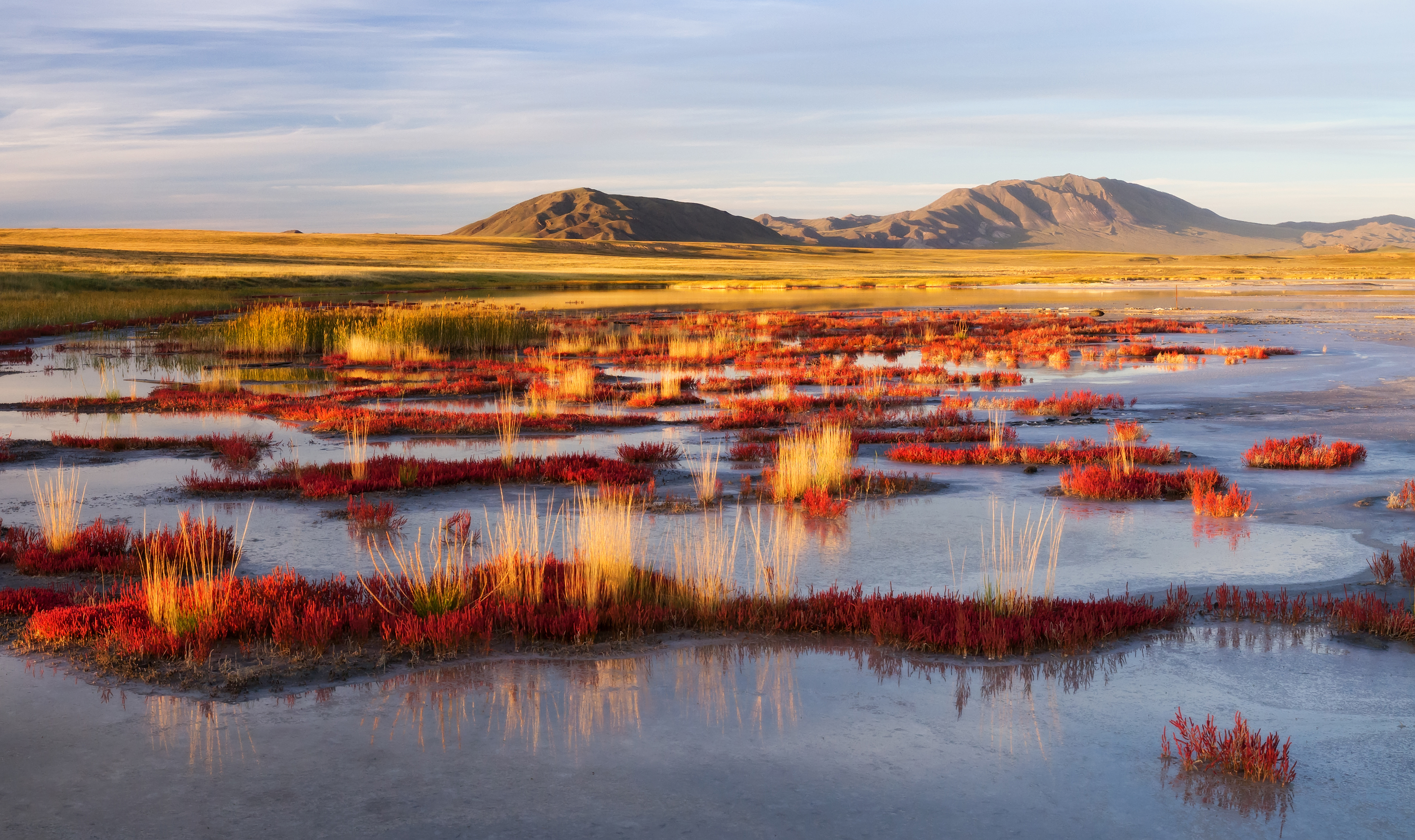 150 km south Kyzyl city. The Tyva Republic. Russian Federation.